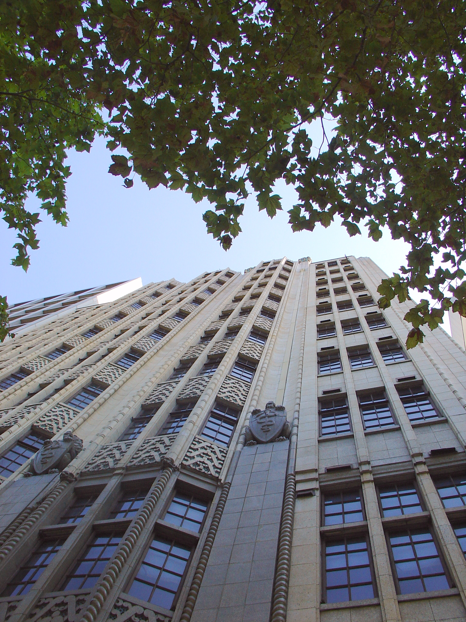 British Medical Association (BMA) House, 135-137 Macquarie St, Sydney. Fowell and McConnel. Subject of a design competition in 1928, winner of 1933 Riba medal